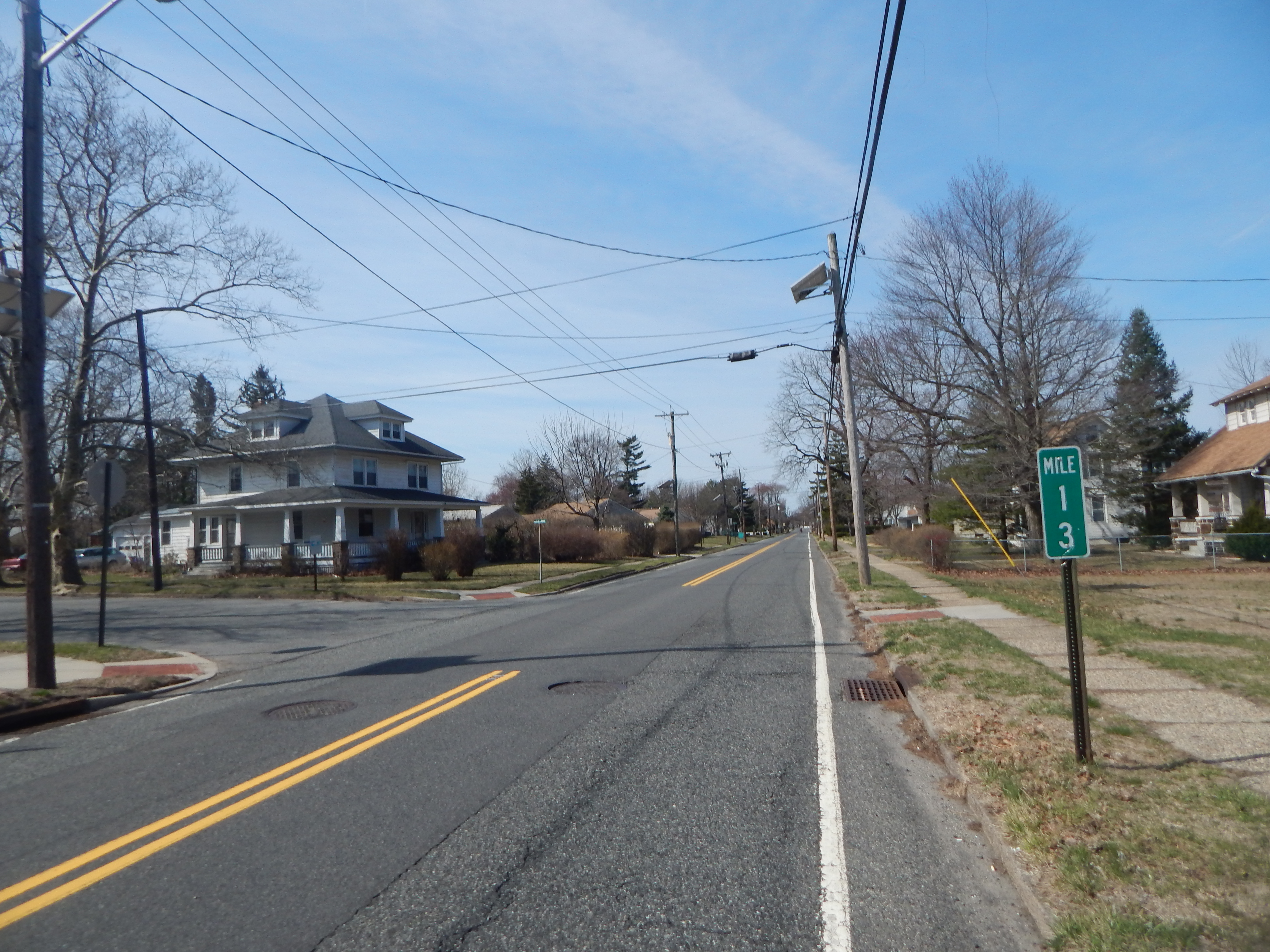 Southbound County Route 543 (Warren Street) in Beverly, New Jersey.